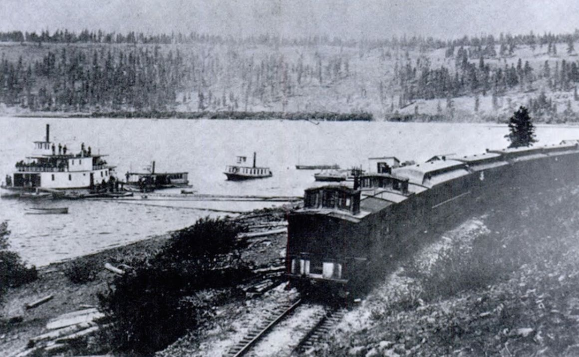 Sternwheeler Amelia Wheaton at Harrison area, Lake Coeur d'Alene, circa 1890.